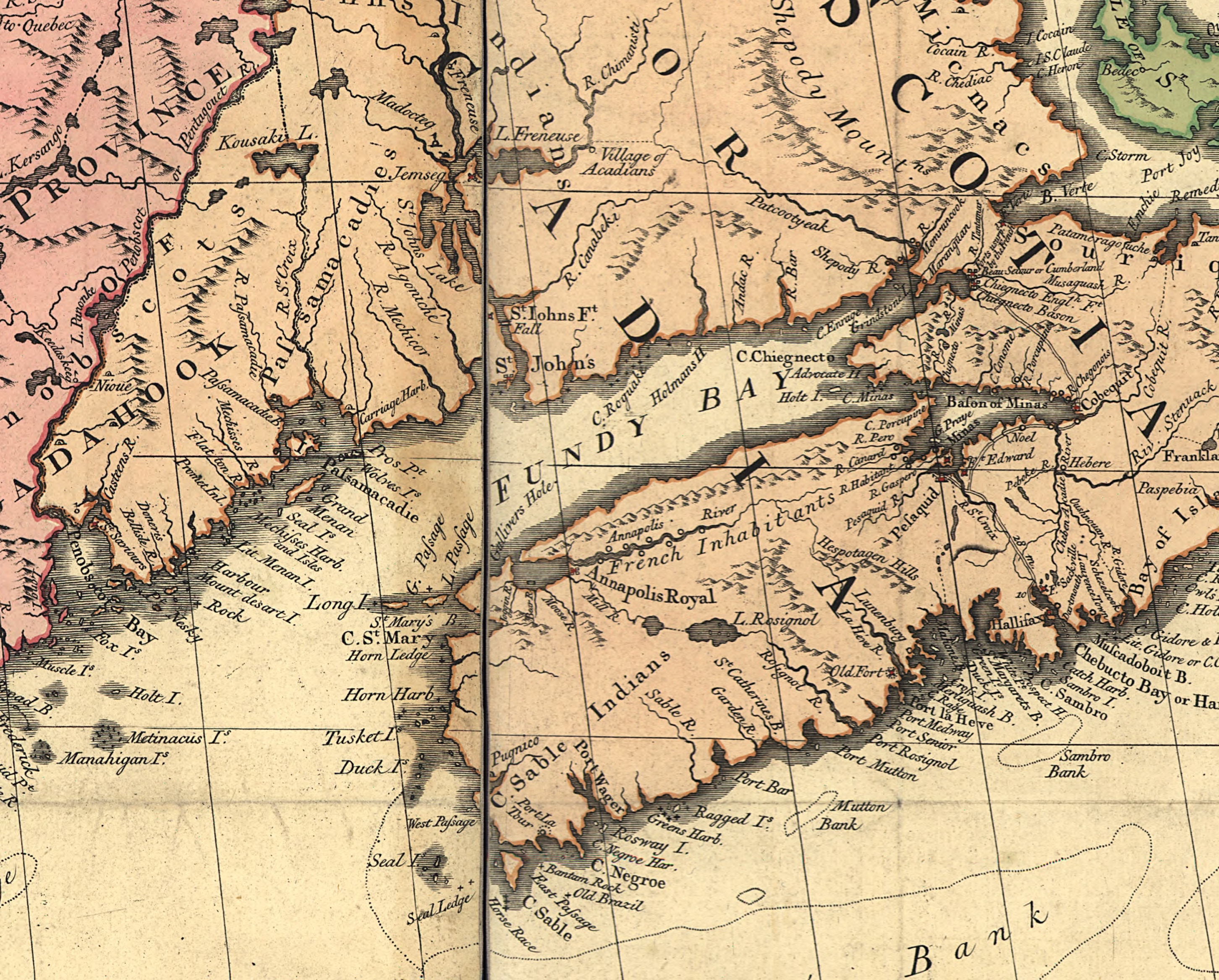 This is a section of the Mitchell Map depicting southern Nova Scotia, the Bay of Fundy and coastal Maine as far west as Penobscot Bay.